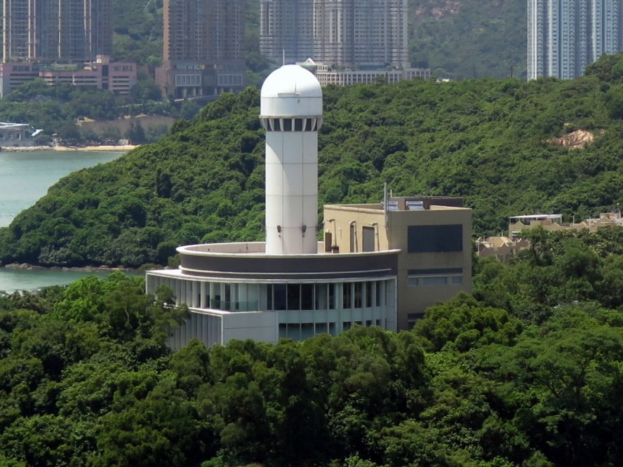 Ma Wan Solar Tower